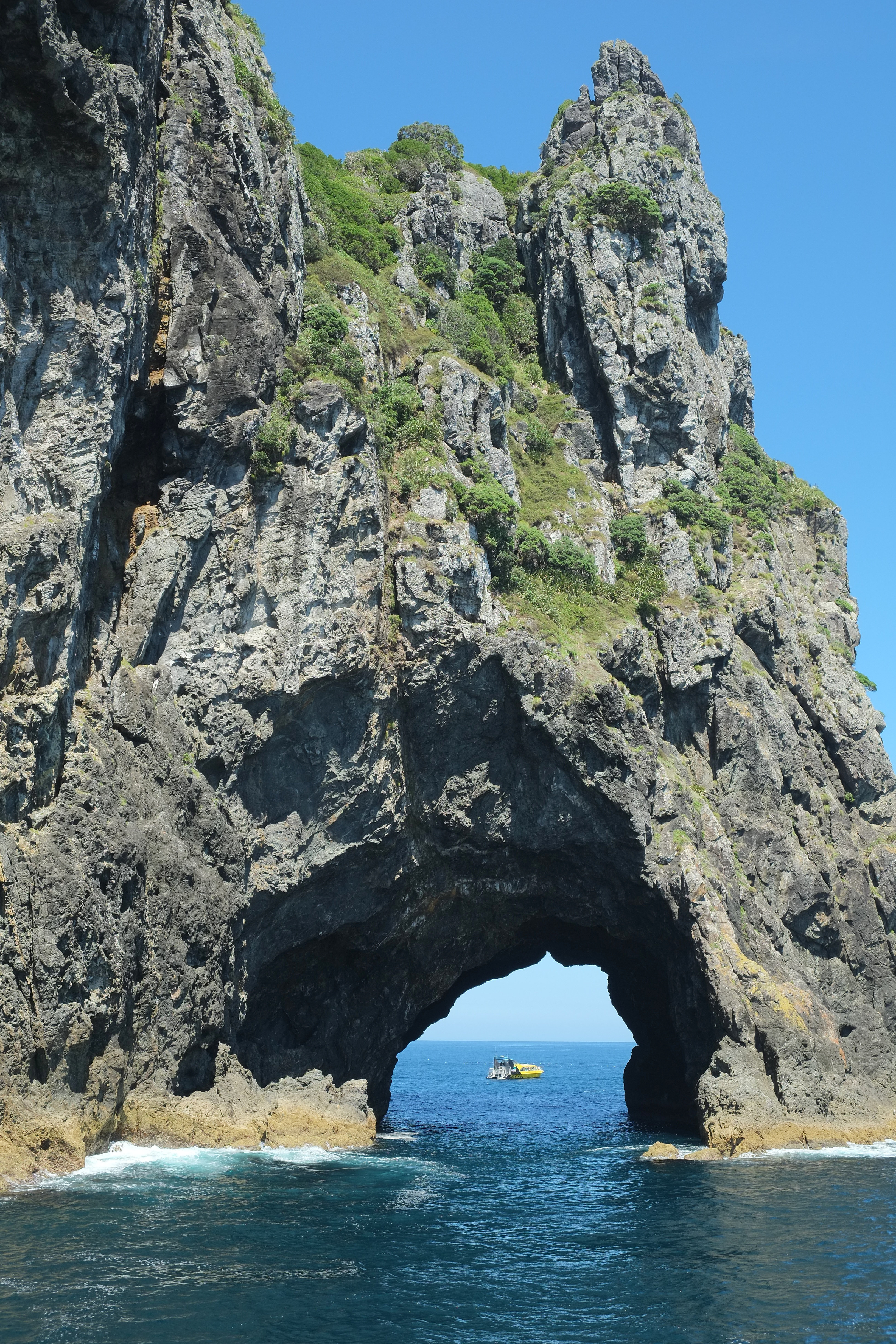 16 metres (52 ft) tall Hole in the Rock at Motukokako Island (Piercy Island) with a tour boat on the other side